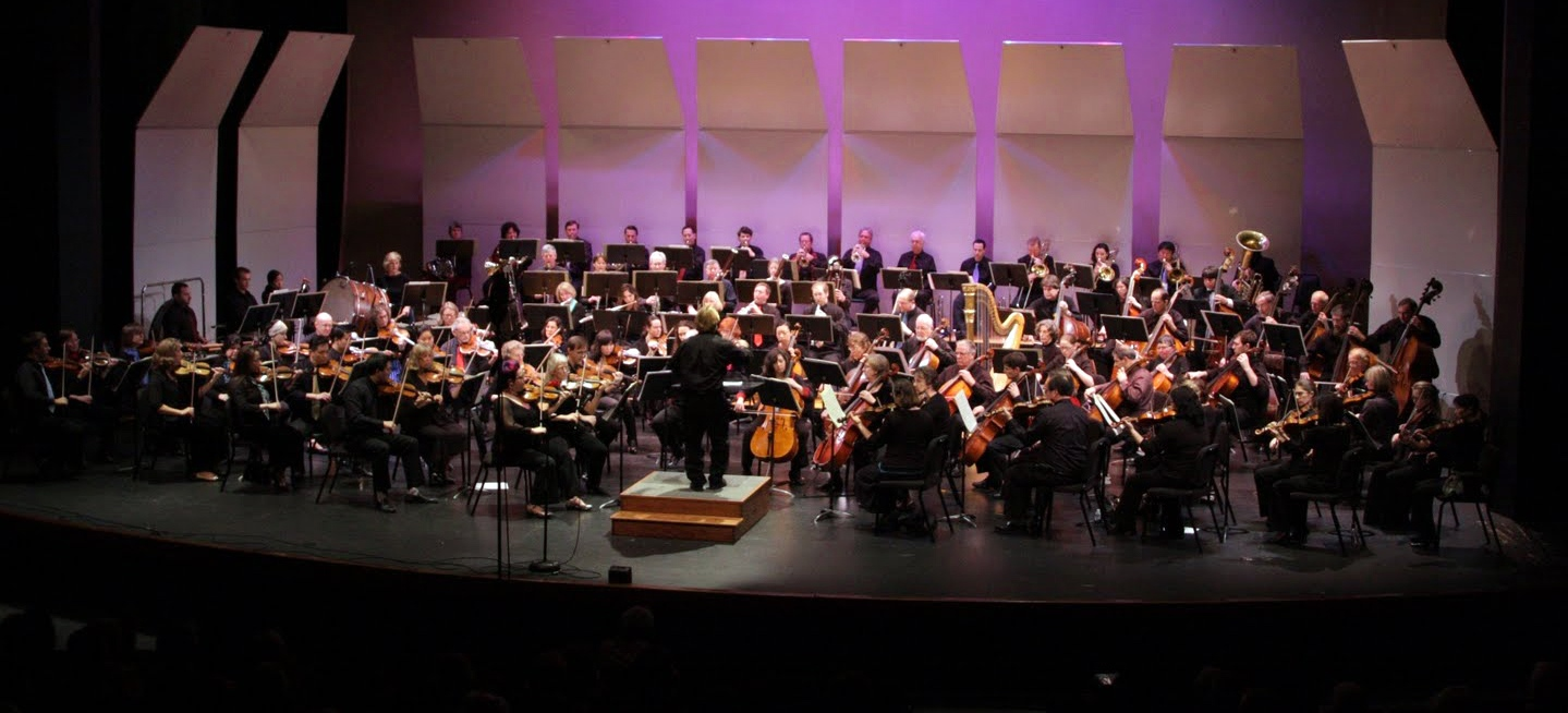 Redwood Symphony - edited file